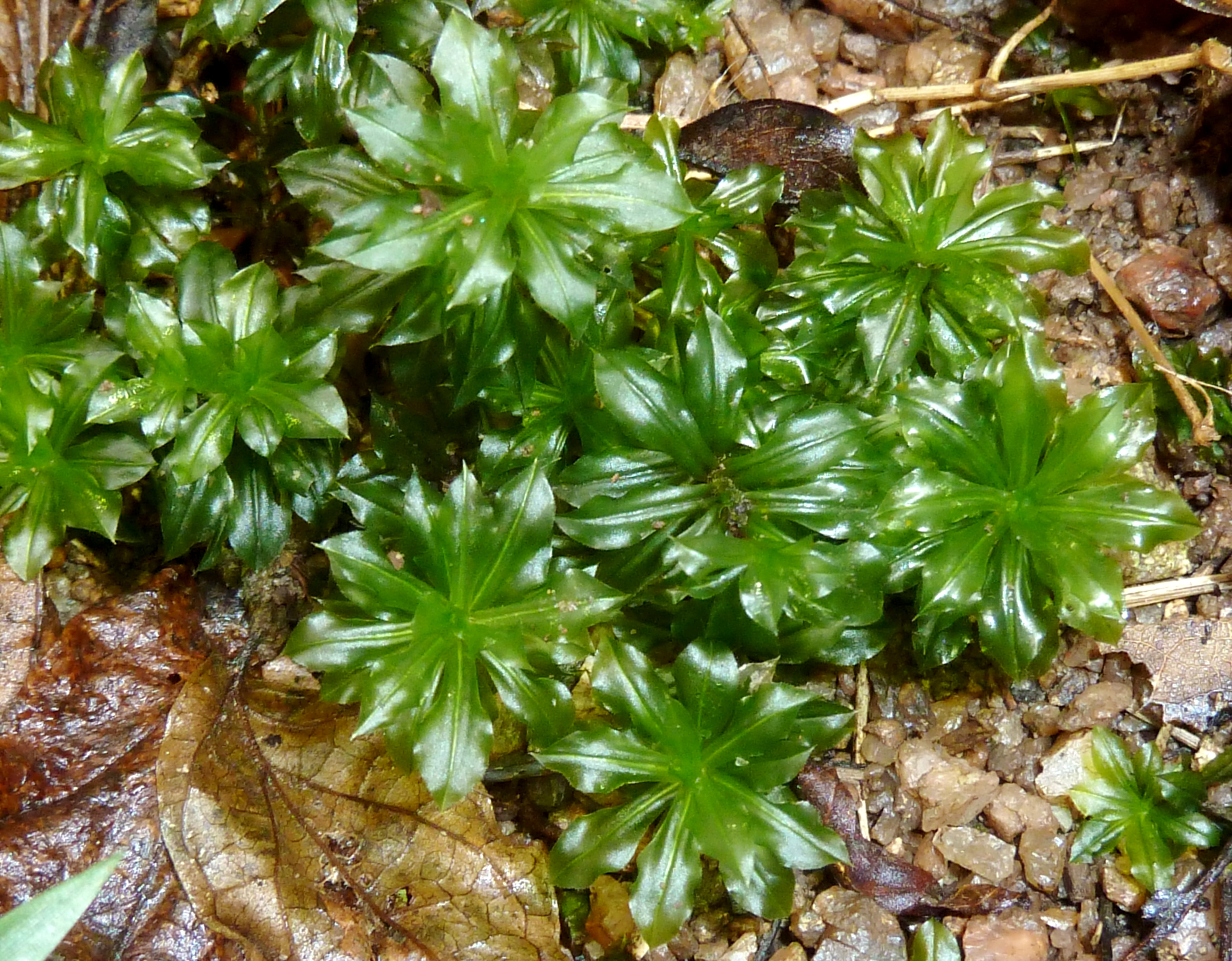 Rose-moss in Krantzkloof Nature Reserve